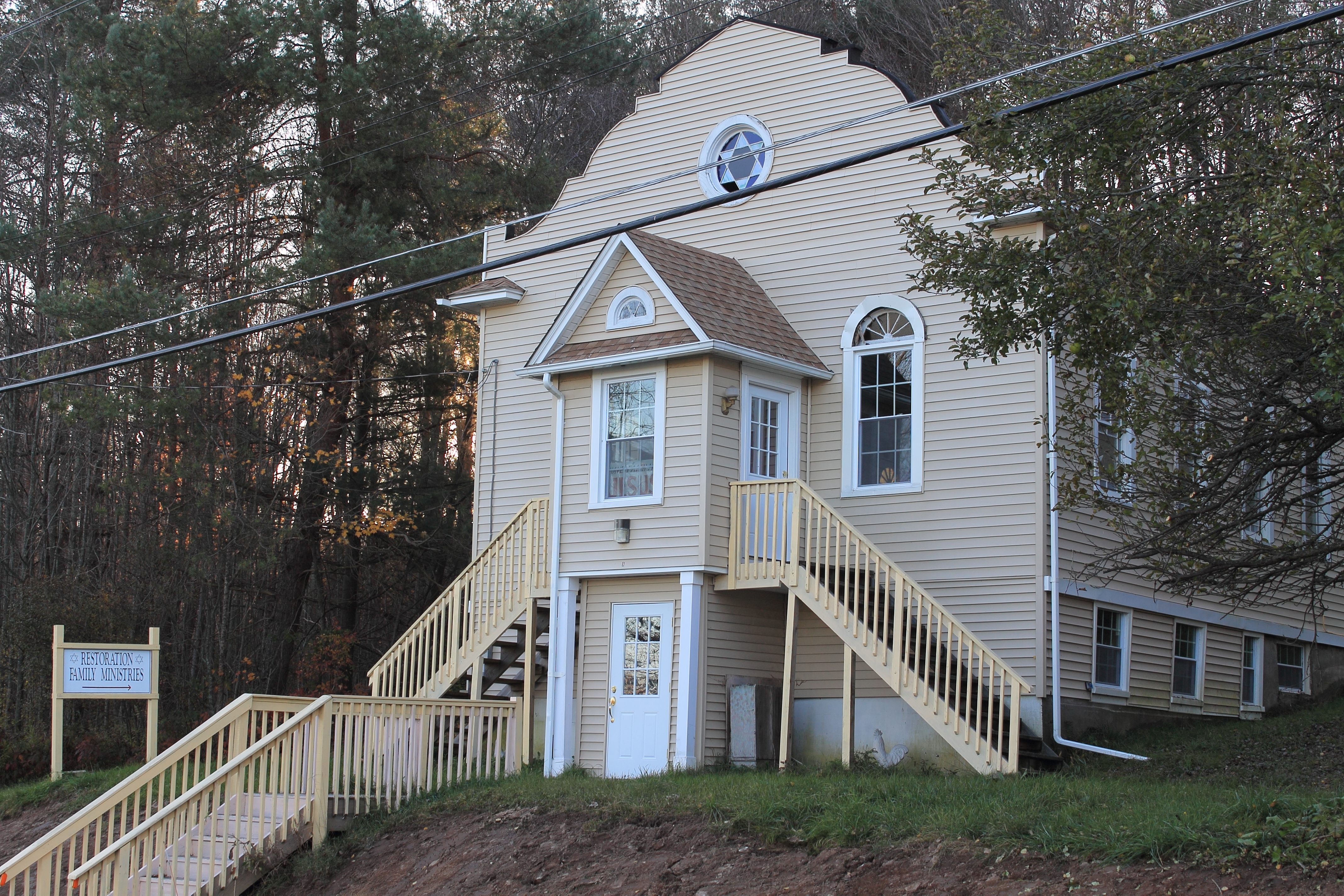 Photo Jewish Community Center of White Sulphur Springs, NY